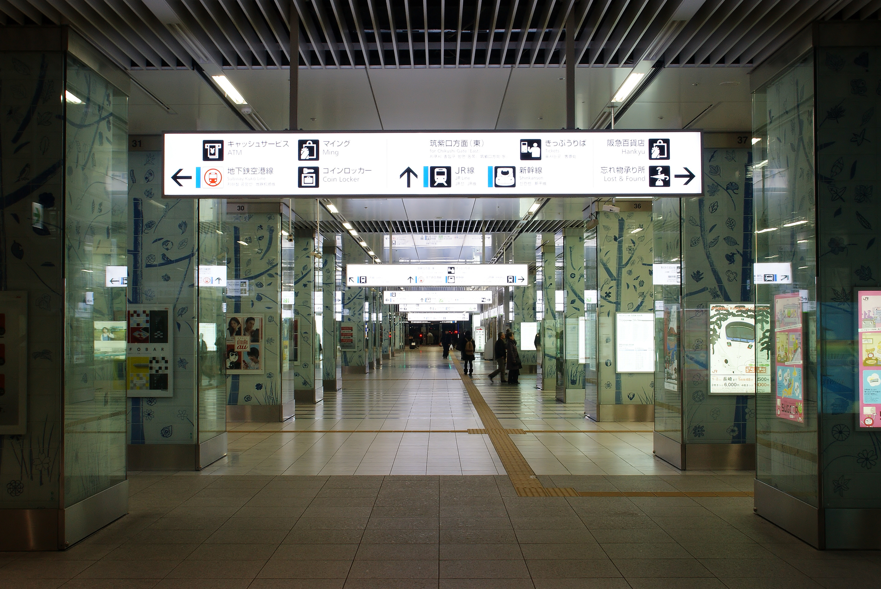 Kyushu Railway Company, Central Concourse of Hakata Station.(Hakata Ward, Fukuoka City, Fukuoka Prefecture, Japan)